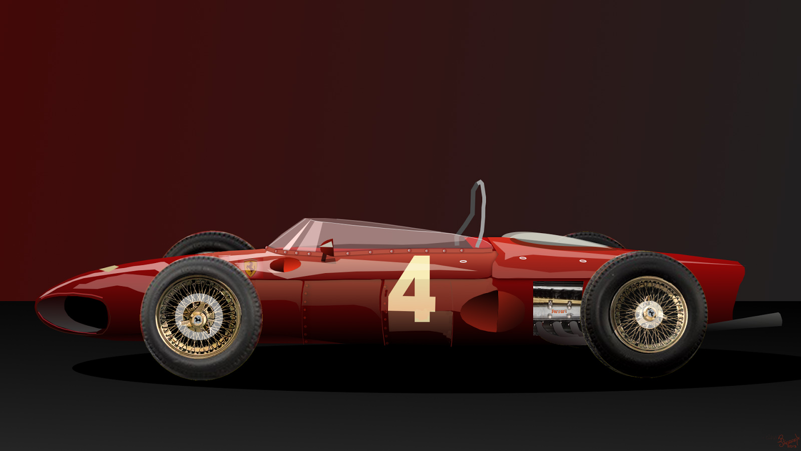 Ferrari 1961 "Sharknose" F-156 120 deg. V-6 1.5 litre